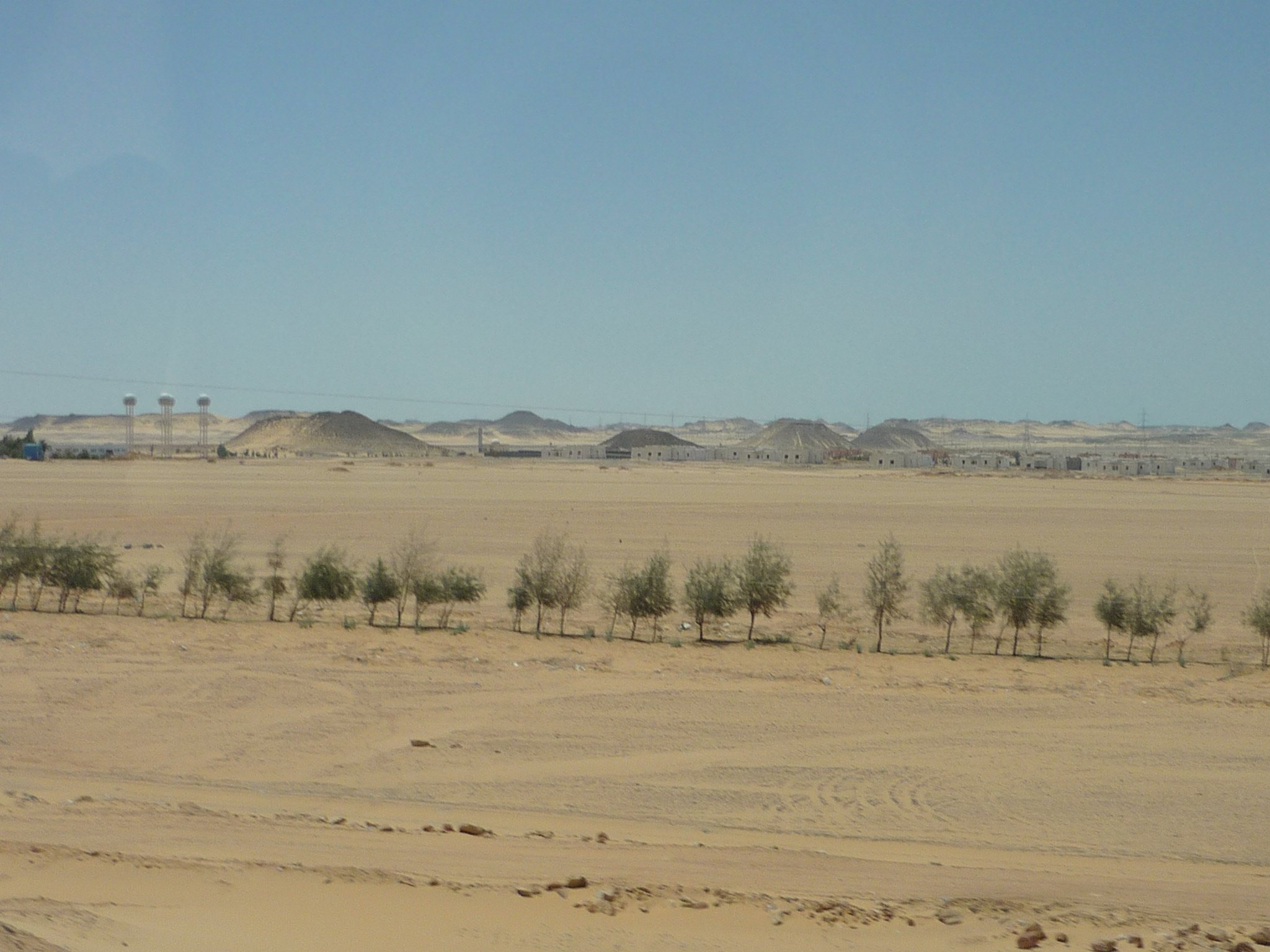 New town of Toshka in New Valley project, Libyan desert, Egypt